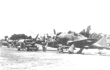 P-43s being serviced at a field in China. (National Archives)